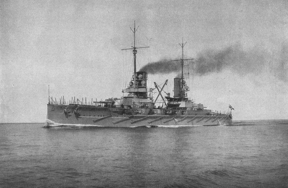 The German Dreadnought SMS Prinzregent Luitpold in 1913.